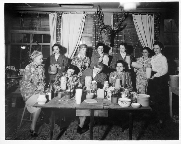 Image of Hagen seated on a stool next to seated and standing pottery class students in Mahone Bay.